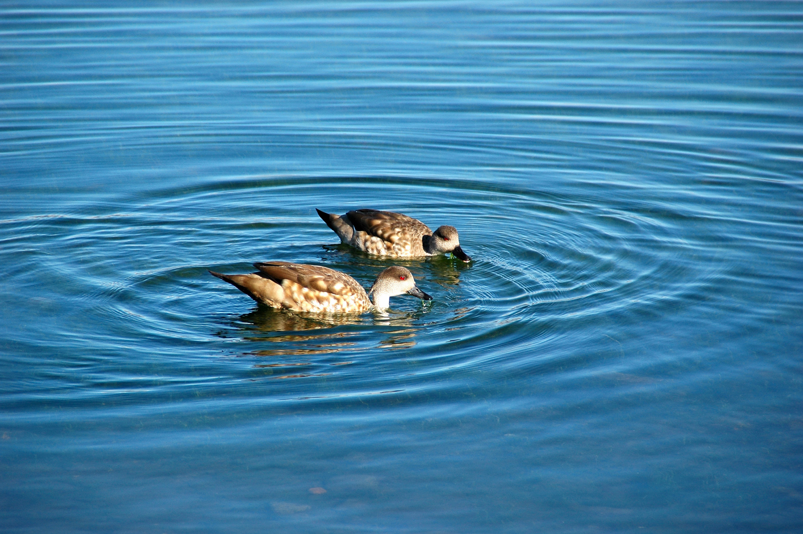 Crested Ducks (Lophonetta specularioides) on Seno Ultima Esperanza, Chile.